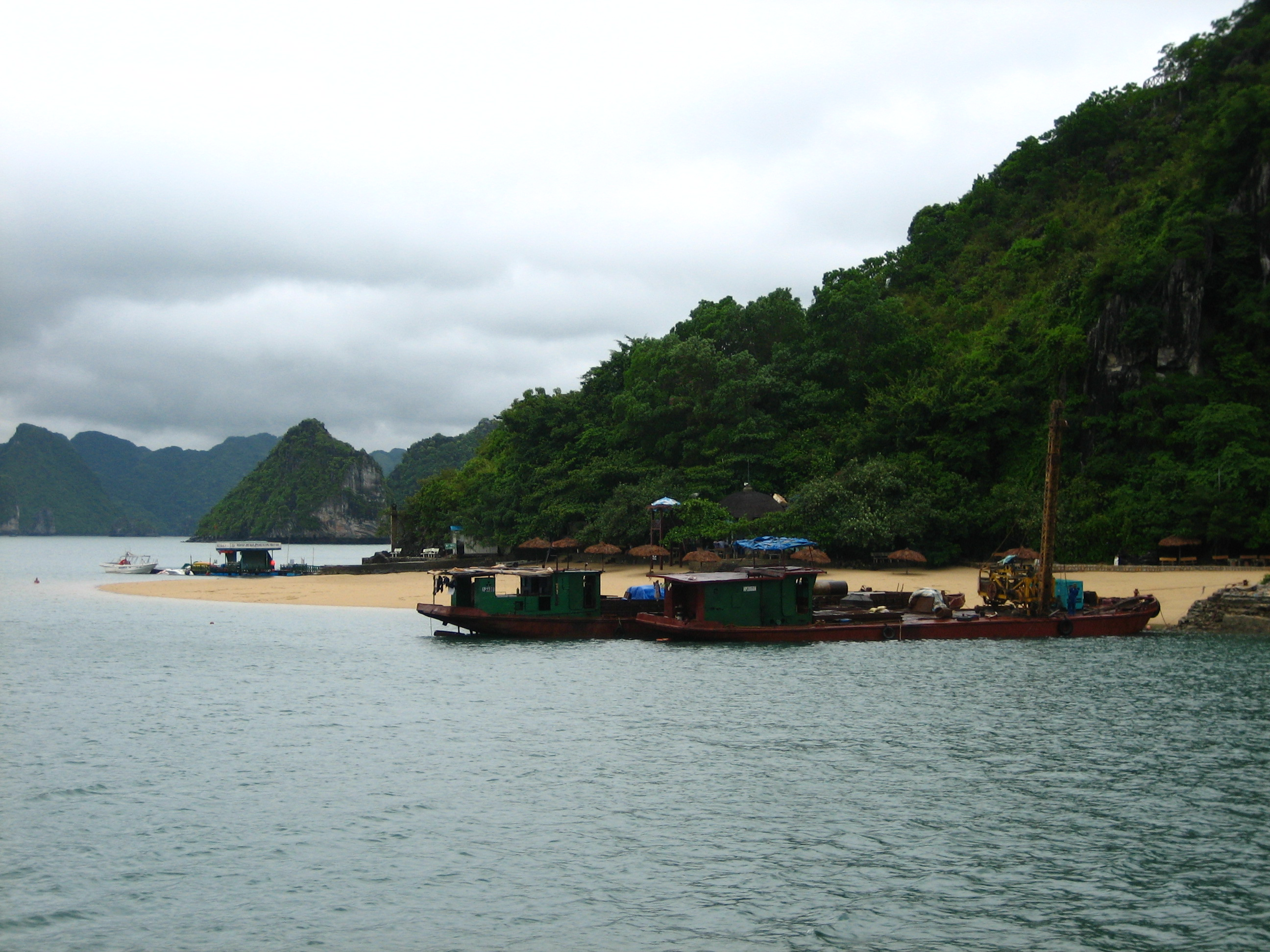 Way to the Titop Island in Ha Long bay.